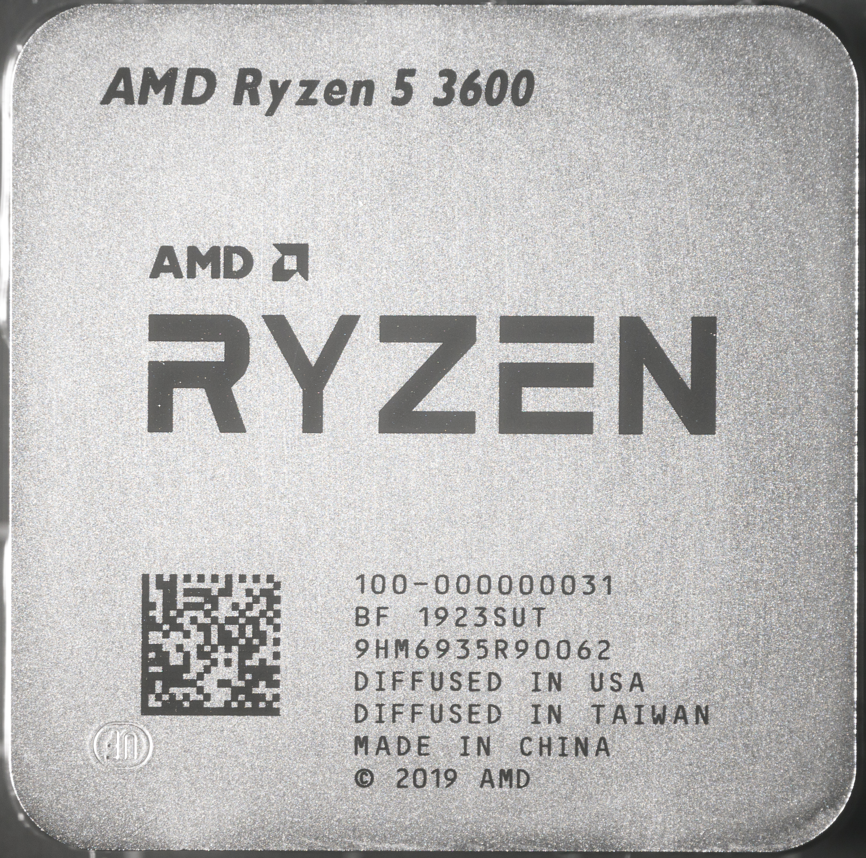 AMD Ryzen 5 3600 processor (Matisse).